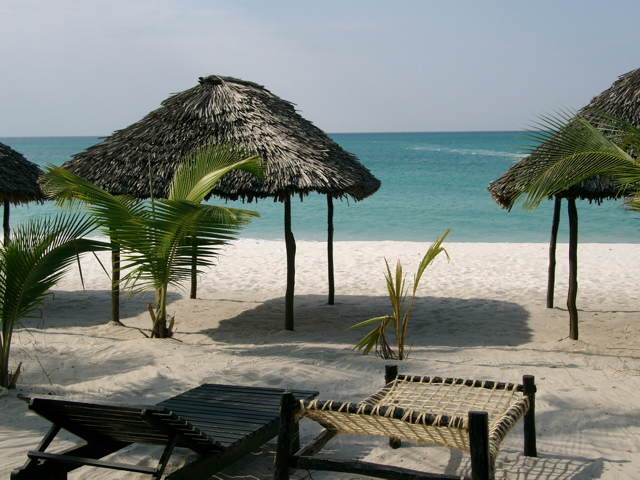 Beach on the peninsula of Kigamboni, which is part of Dar-es-Salaam, Tanzania